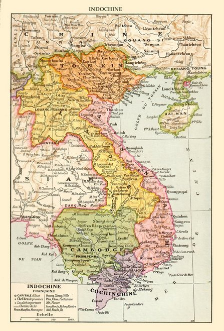 Map of French Indochina from the colonial period showing its six subdivisions: Tonkin, Annam, Cochinchine, Cambodge, Laos and Kwangchow Wan.